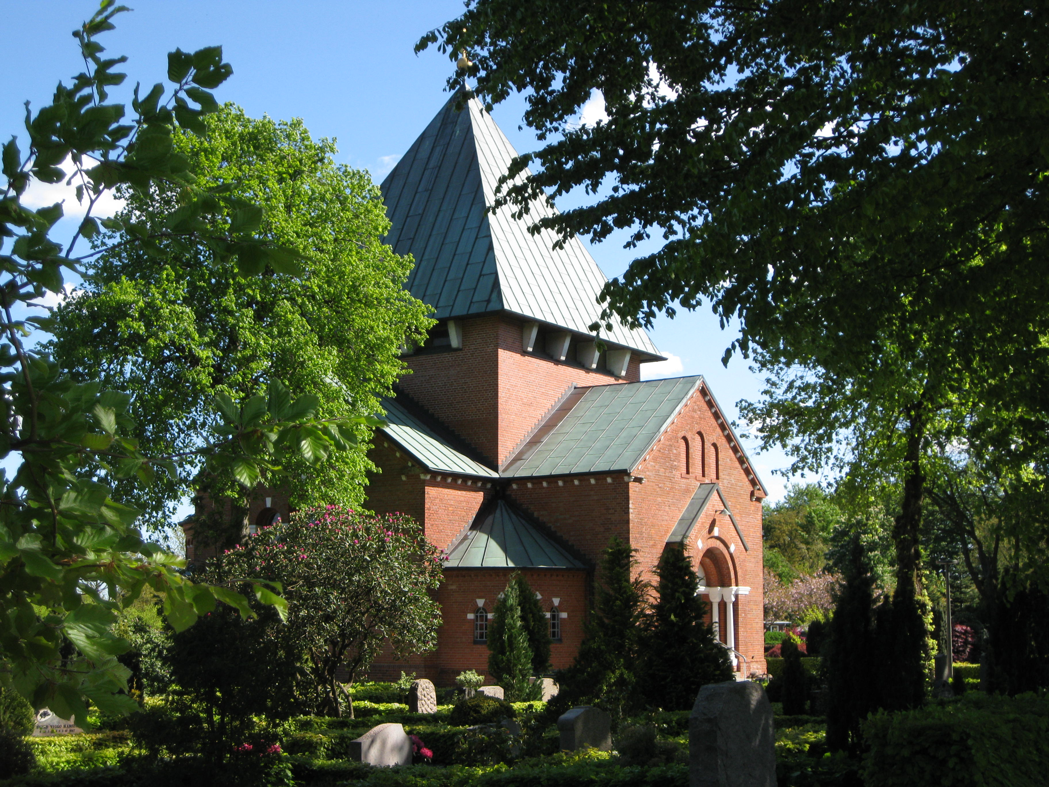 The church "Hovborg Kirke" in the village "Hovborg". The village is located in Vejen Kommune, South-Central Jutland, Denmark.